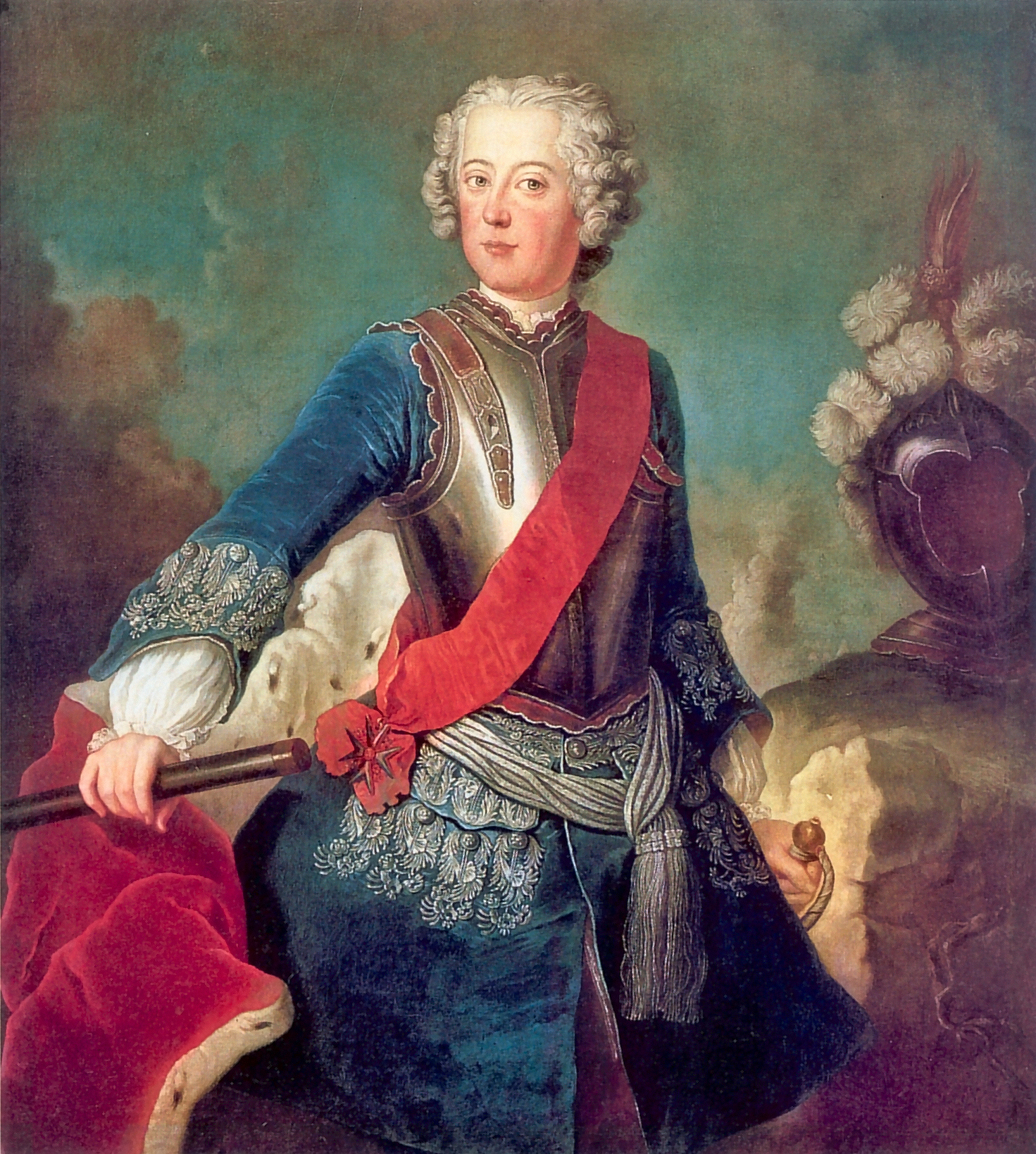 Portrait of the young Friedrich II of Prussia